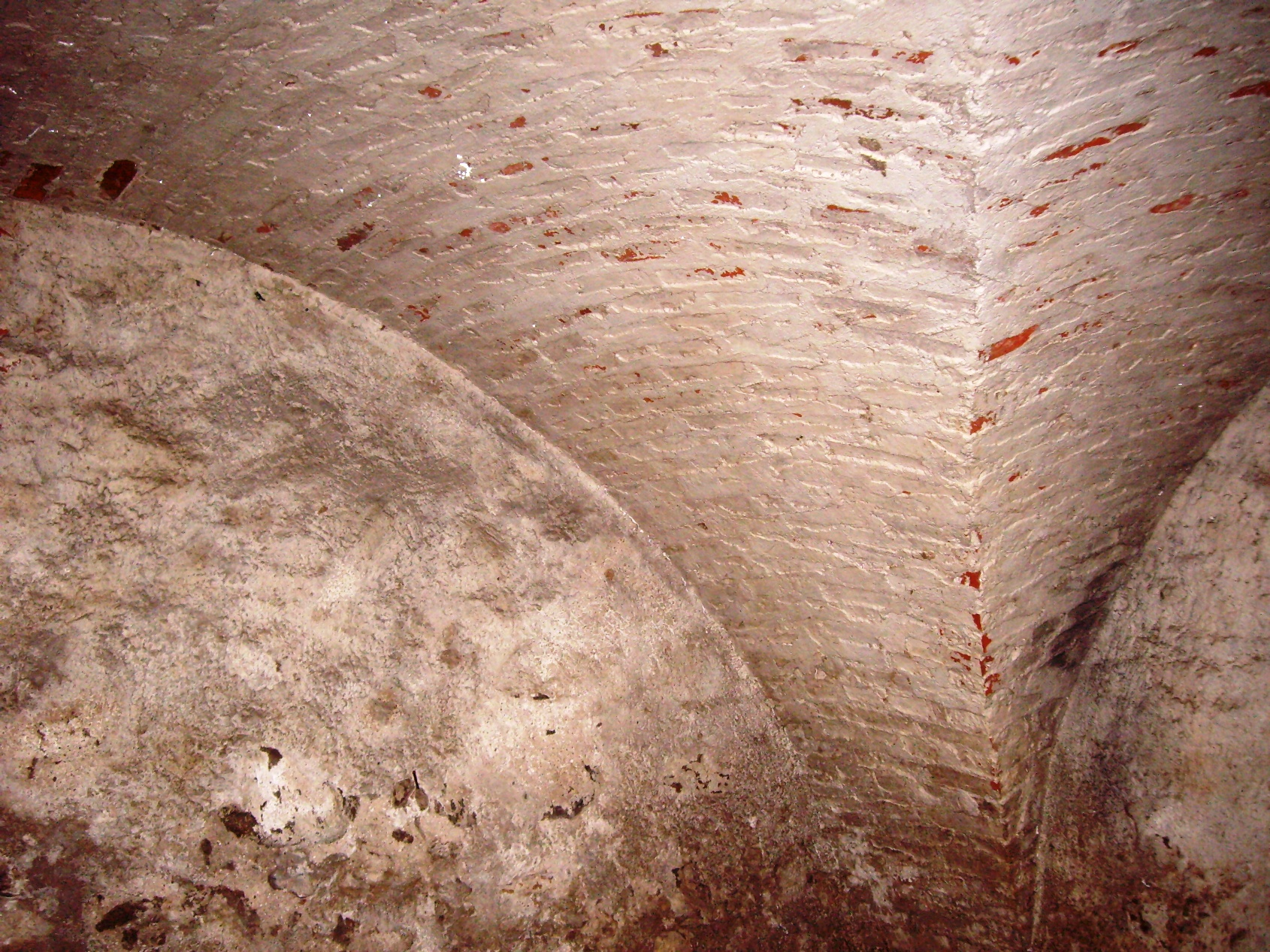 Photo of Ilzenberg Manor cellar.